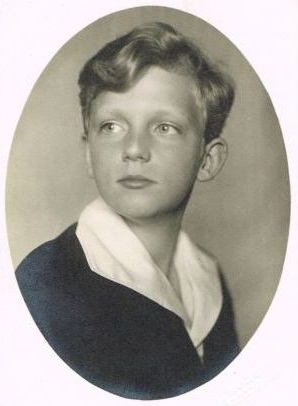 Archduke Carl Ludwig of Austria (1918–2007)